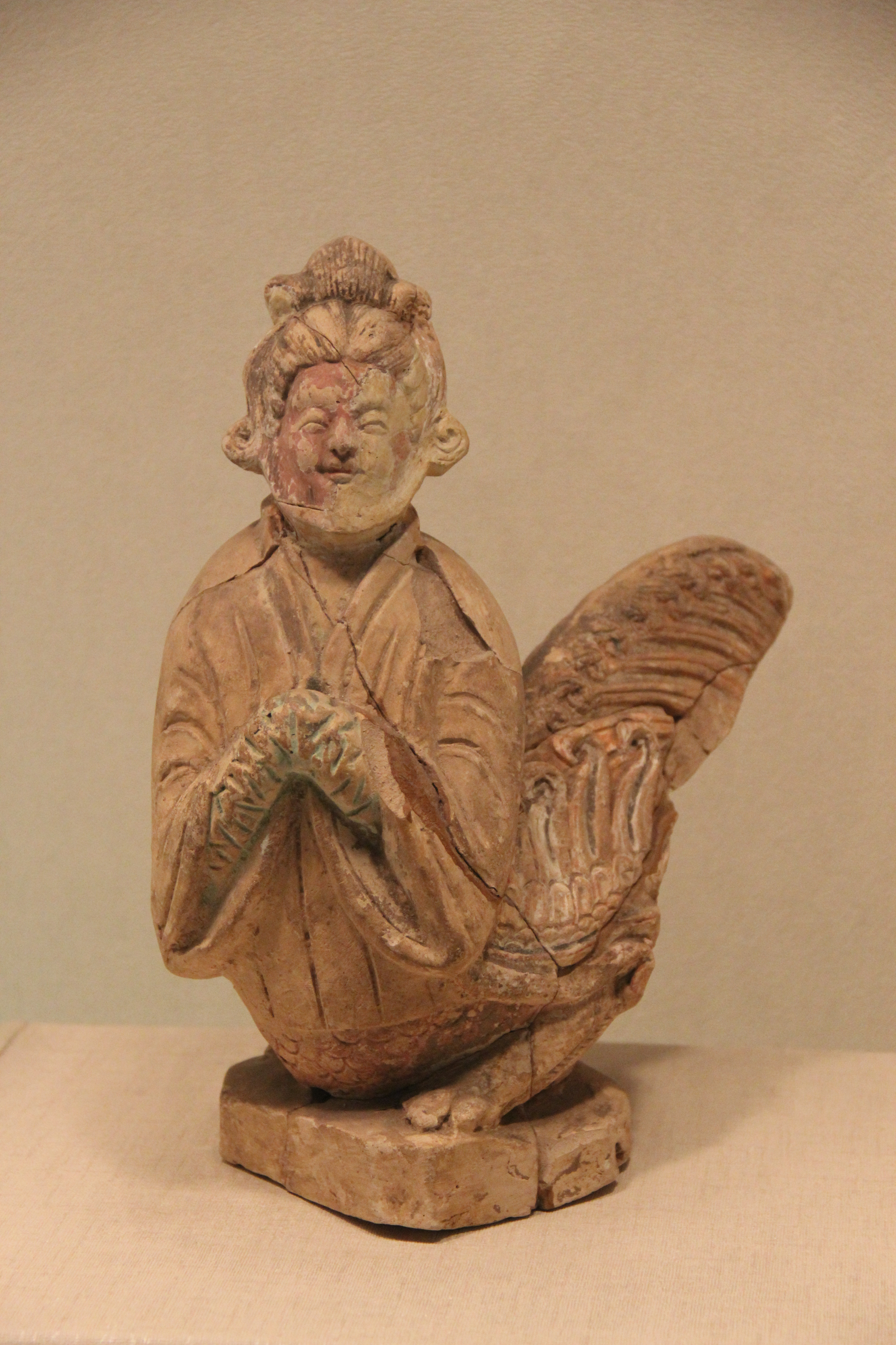 Tang Pottery Bird-Man now being exhibited in Liaoning Museum, Shenyang